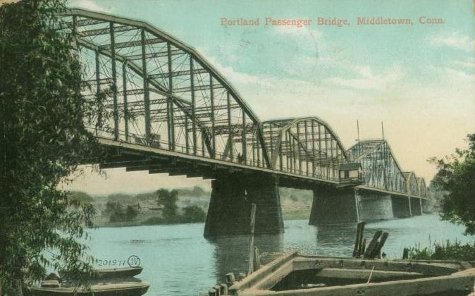 Postcard picture of the Portland Passenger Bridge connecting Middletown, Connecticut with Portland, Connecticut across the Connecticut River